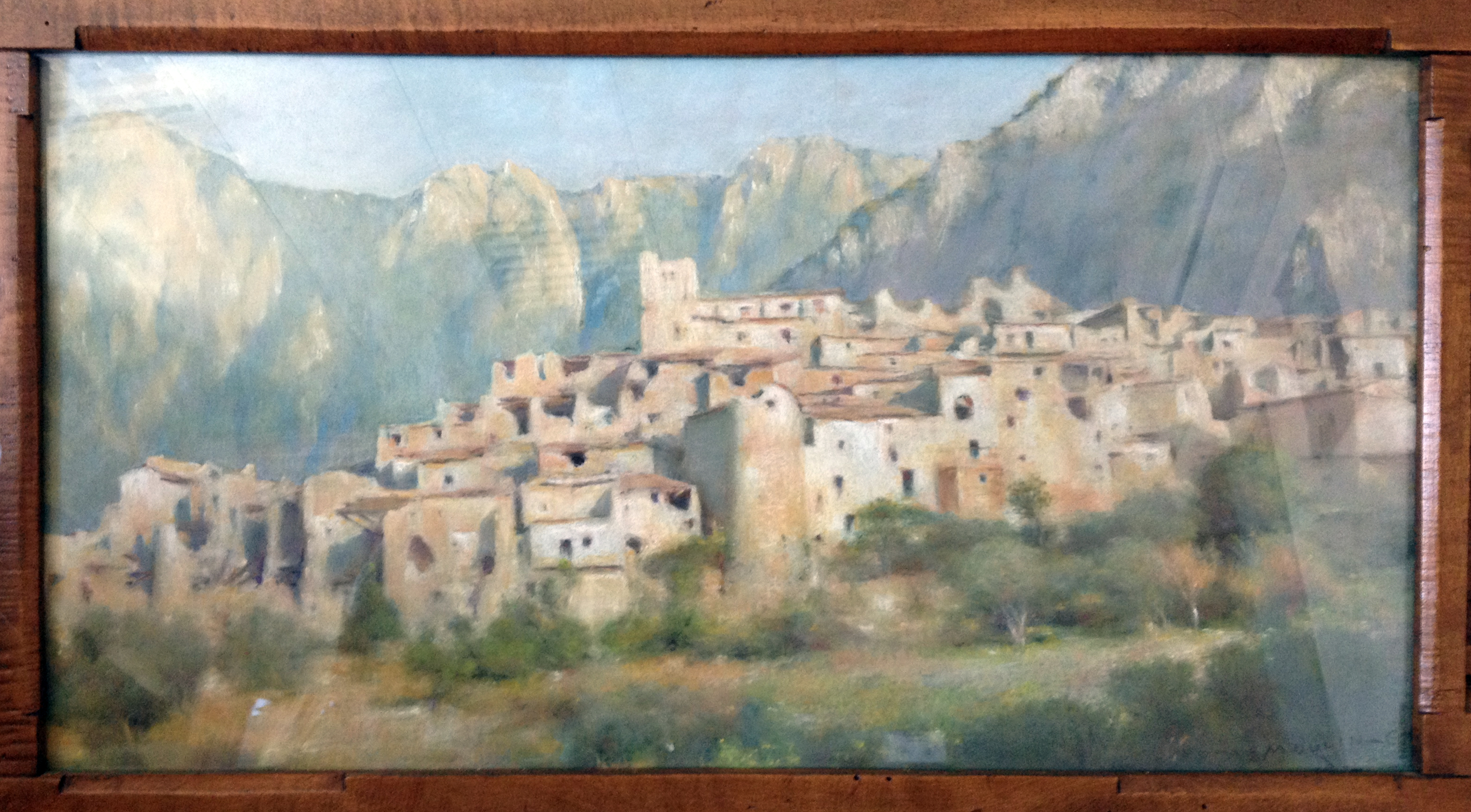 Molisan Landscape painted by Charles Moulin